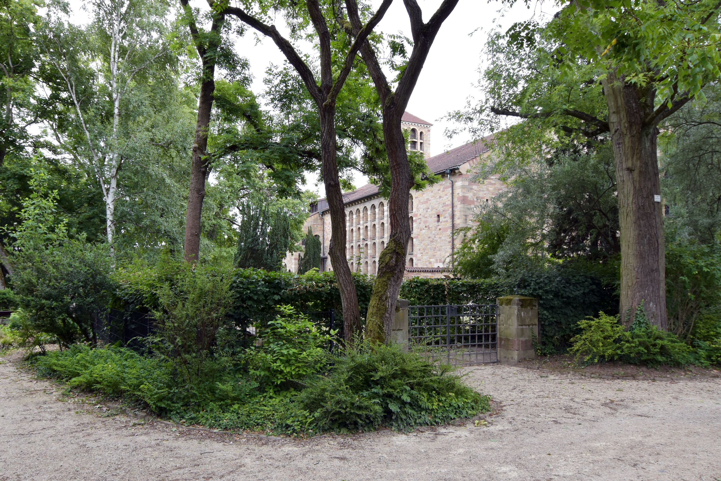 Adenauer Park Speyer